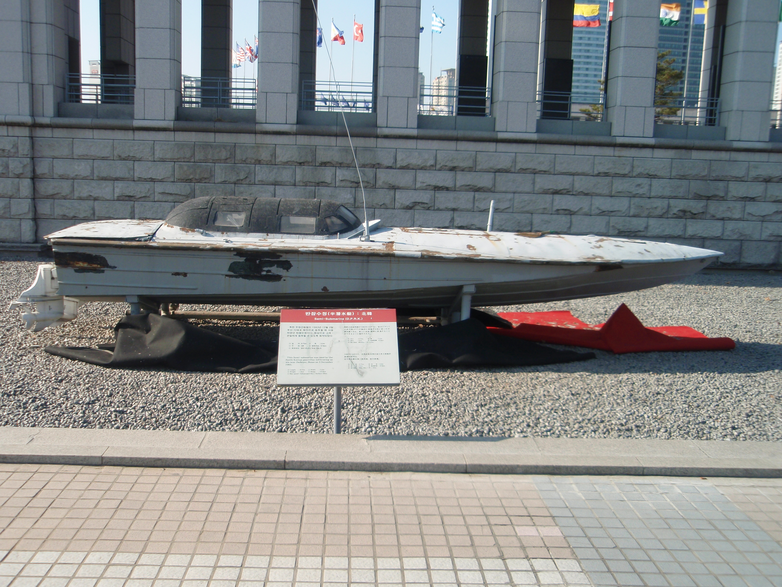 Semi-submarine, used by North Korean SOF filtering on sea near Dadaepo on 3 December 1983.